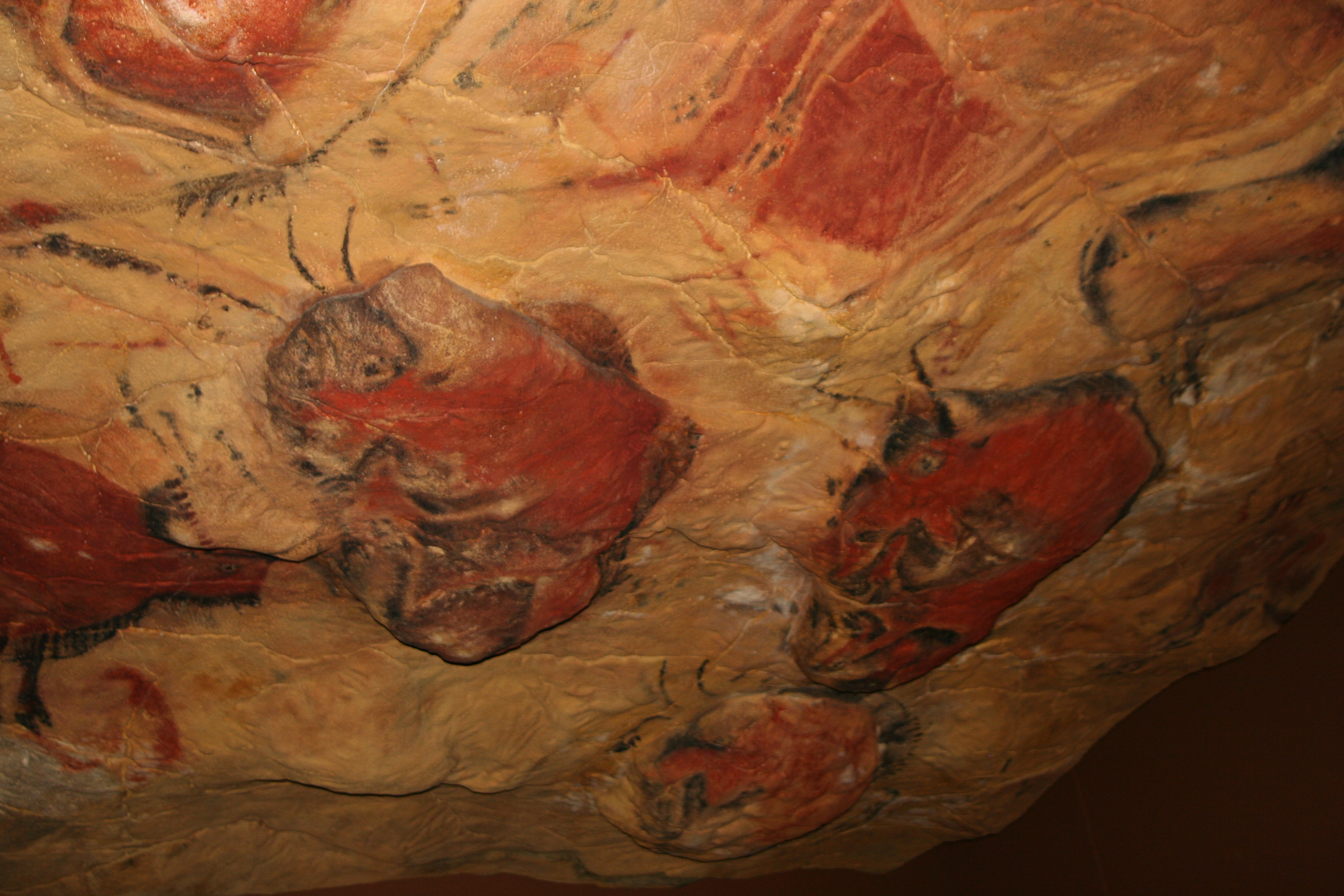 Reproduction of cave of Altamira in "Deutsches Museum" Munich